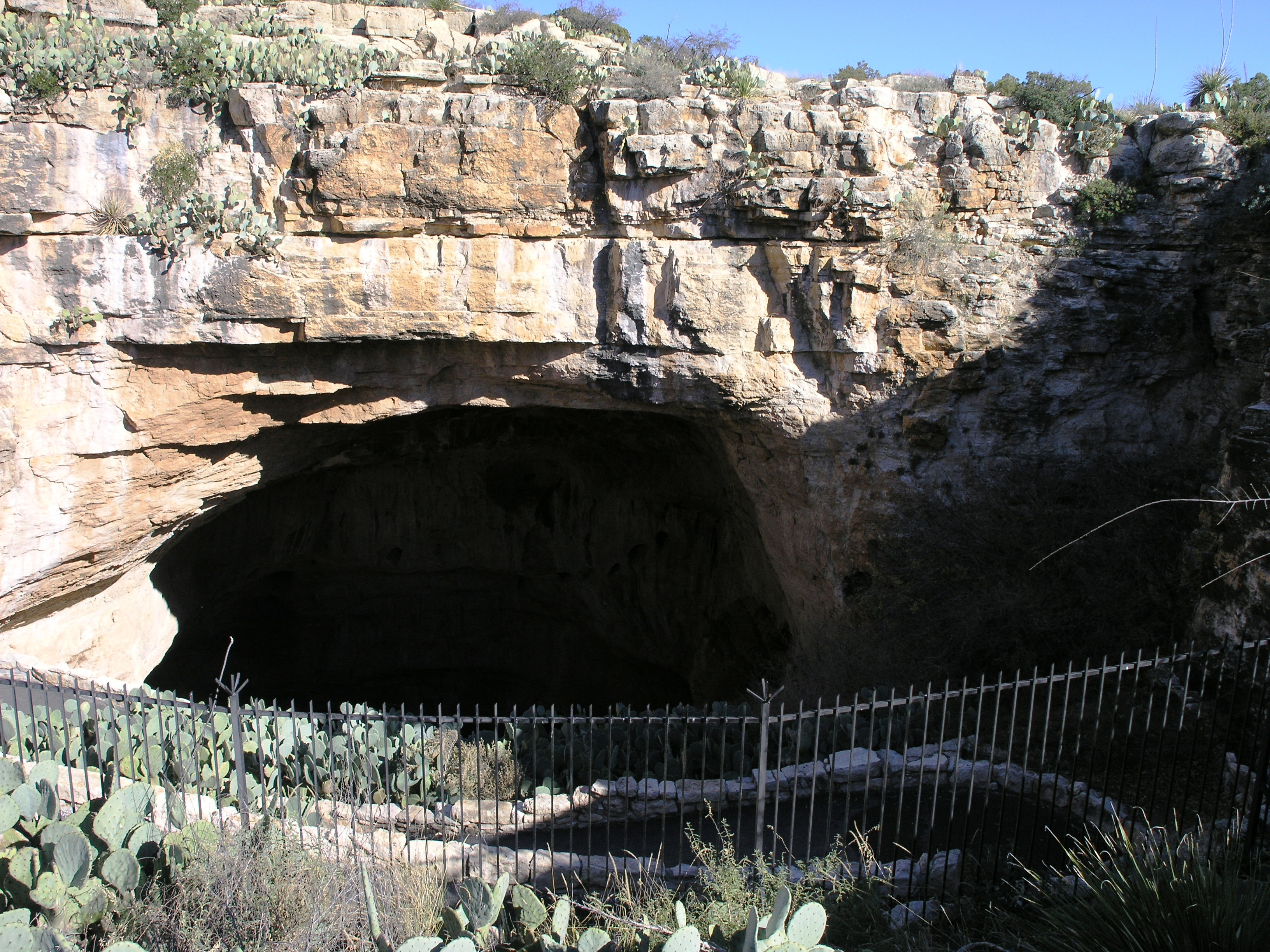 Carlsbad Caverns National Park